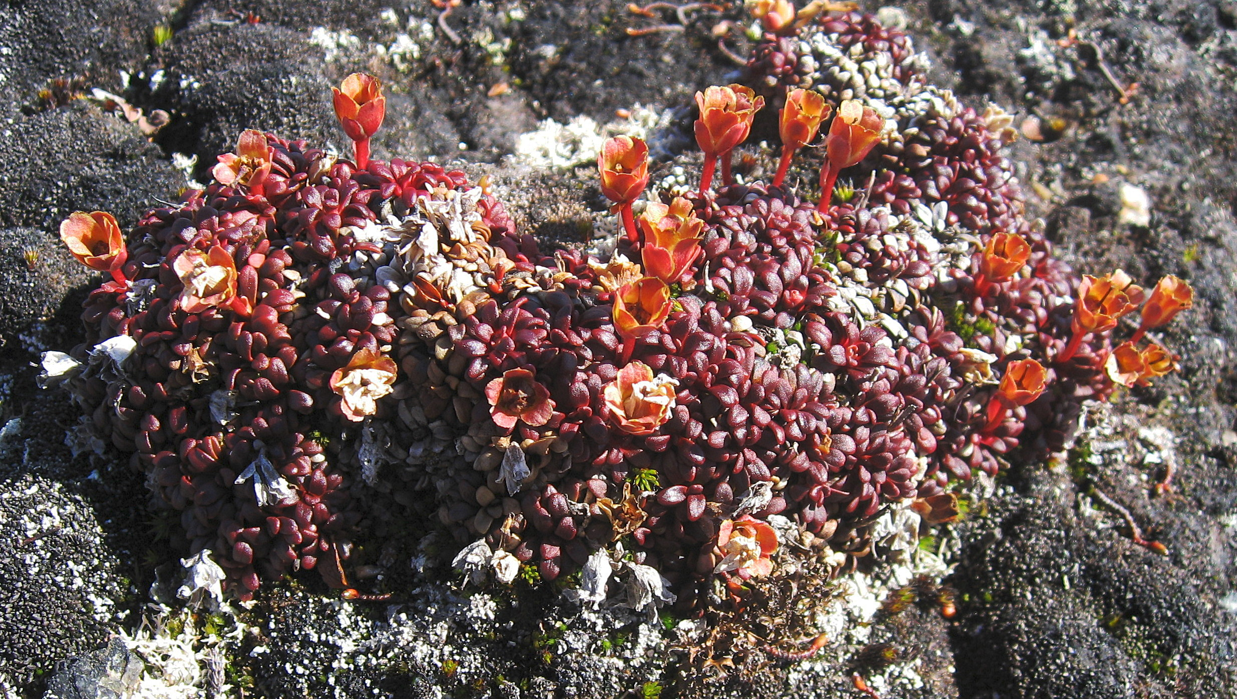 Pincushion plant (Diapensia lapponica) photographed near Upernavik, Greenland. The plant is photographed shortly after the snow has melted.